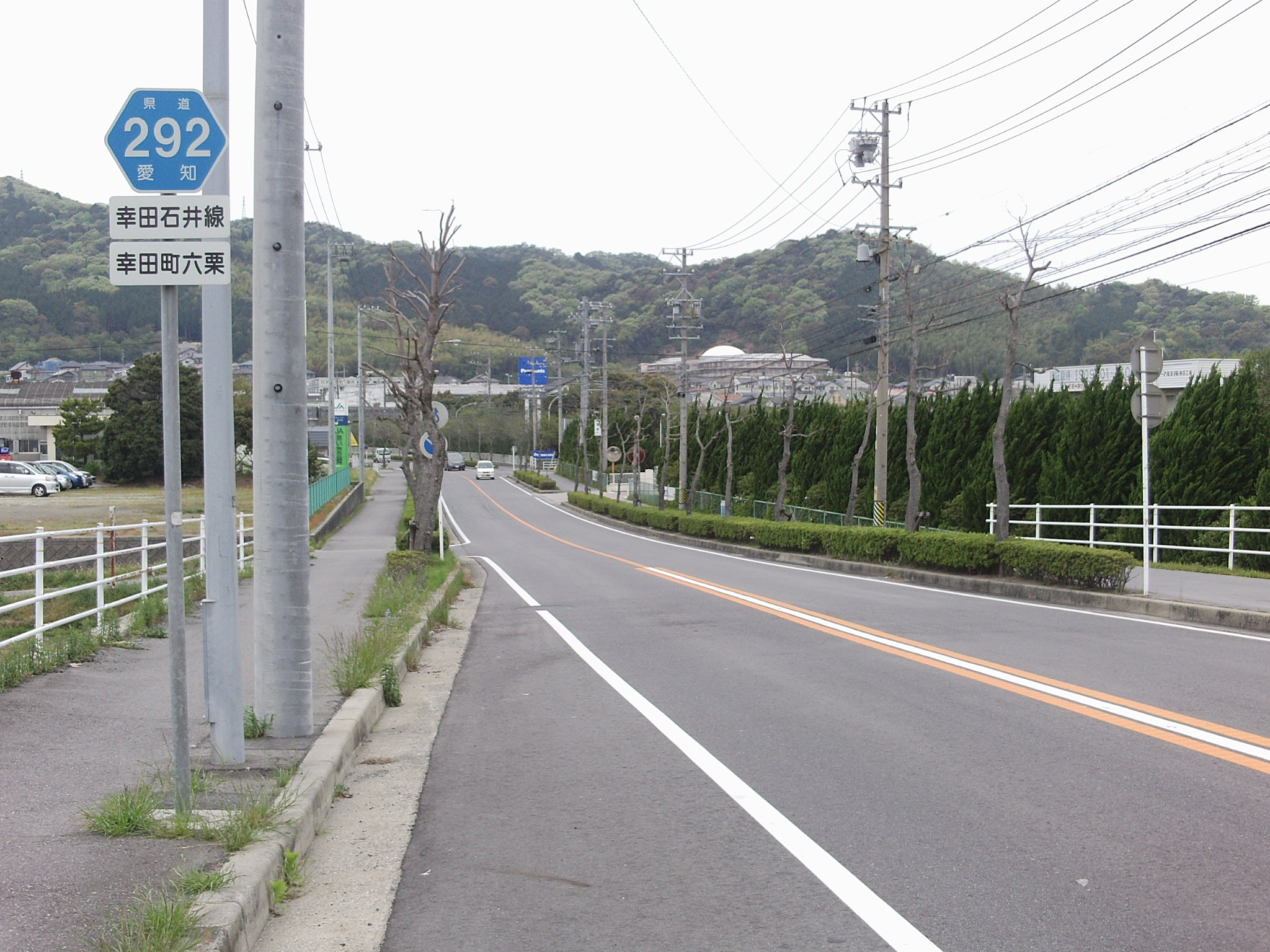 Aichi prefectural road No.292 in Mutsuguri, Kota-cho, Nikata-gun, Aichi.